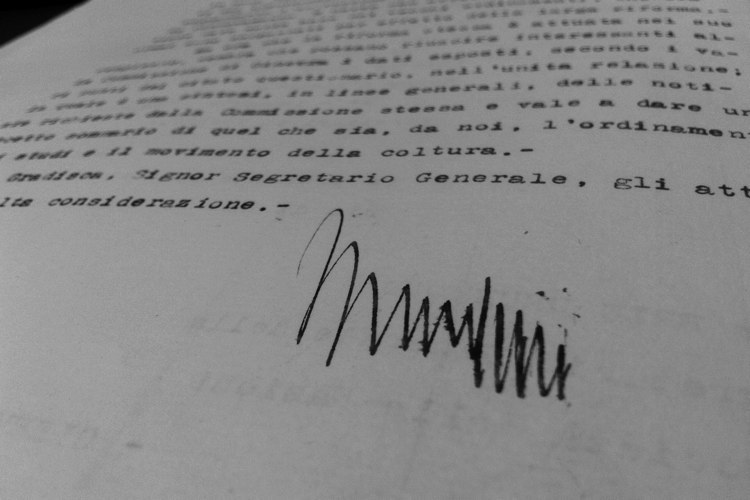 Signature of Benito Mussolini Archives of the International Committee on Intellectual Cooperation (League of Nations), UN Geneva. Source: Grandjean, Martin (2013) Archives en images : Quelques aperçus de la Commission de coopération intellectuelle.